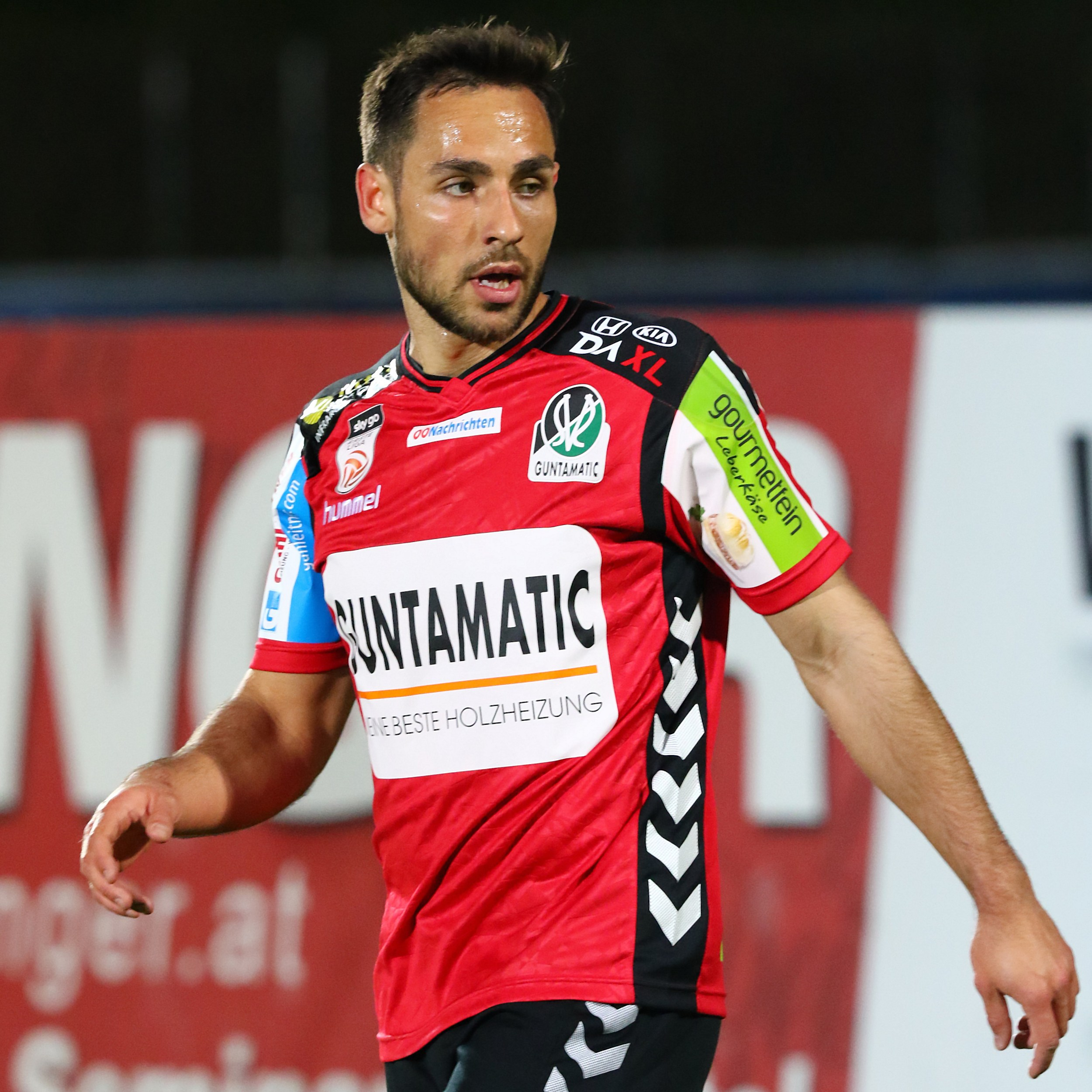 Football-championship Erste Liga 2017–18 - SC Wiener Neustadt (white shirts) vs. SV Ried (red shirts) 1-0. – The photo shows Christian Schilling